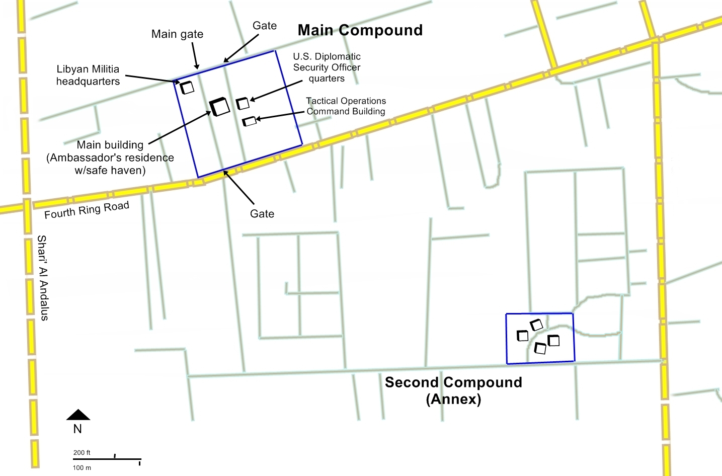 Map showing locations of U.S. mission (main compound) and annex at the time of the 2012 Benghazi attack.